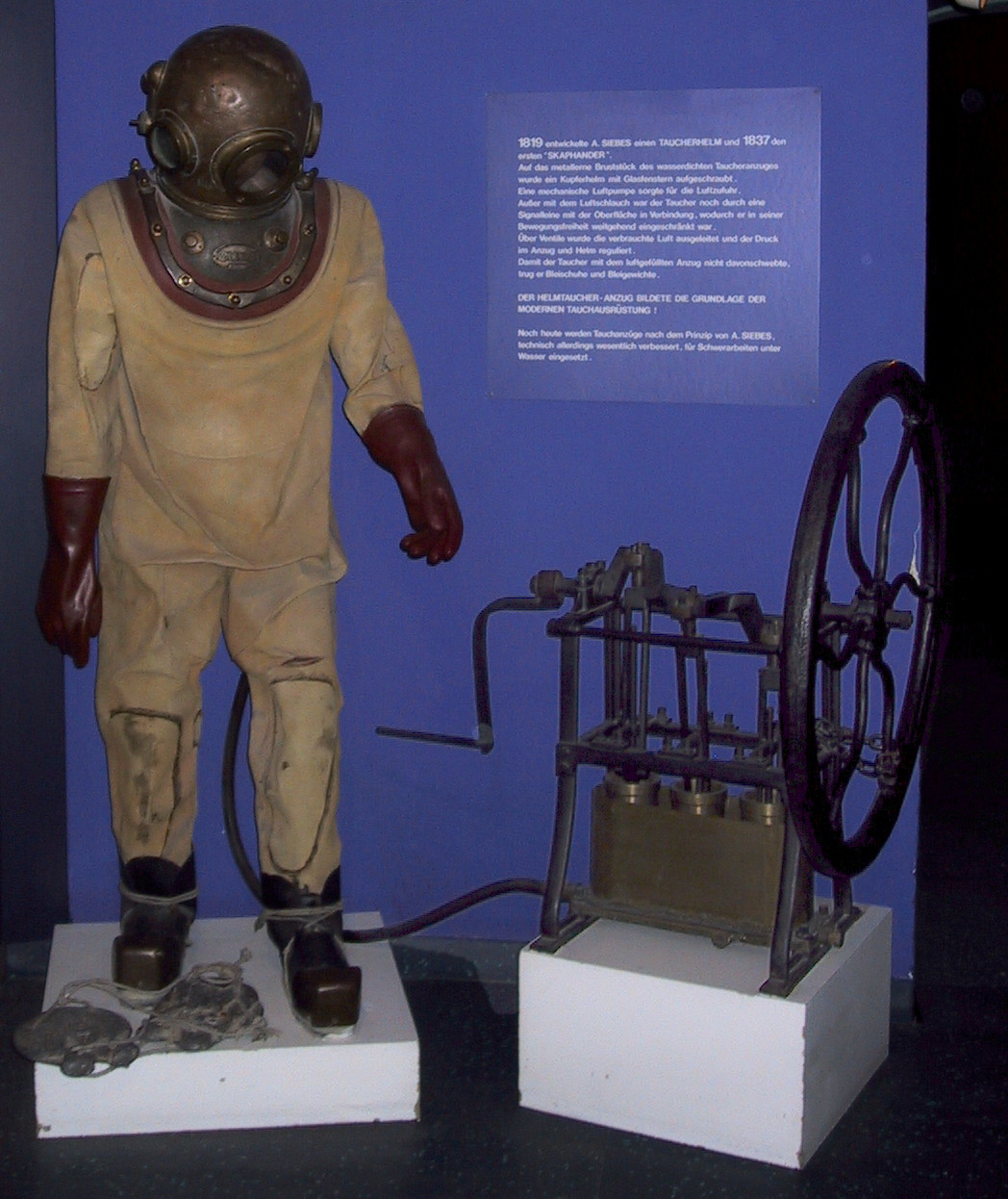 Early diving equipment, Helmtaucher, own photography, GFDL. Photographed on 23.1.2005 in Salzburg, Haus der Natur.